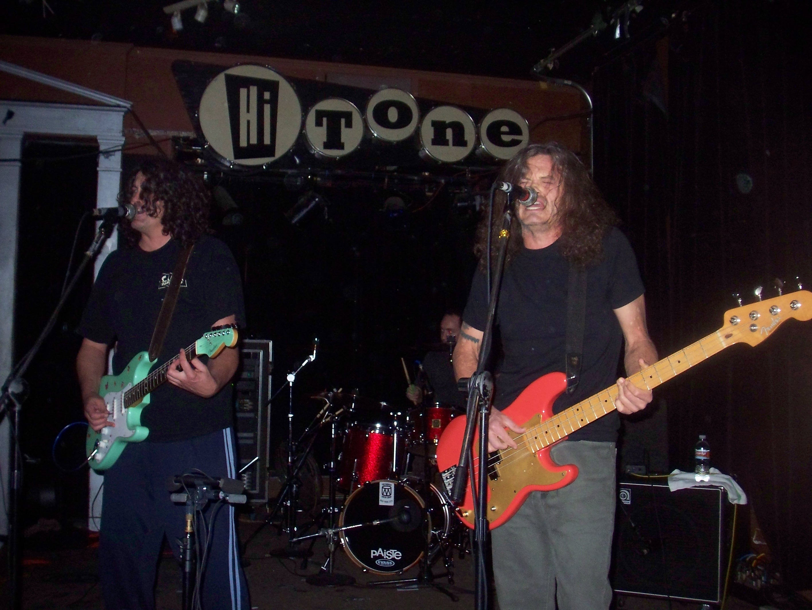 The Meat Puppets, band performing in Memphis, Tennessee on November 2nd, 2007.